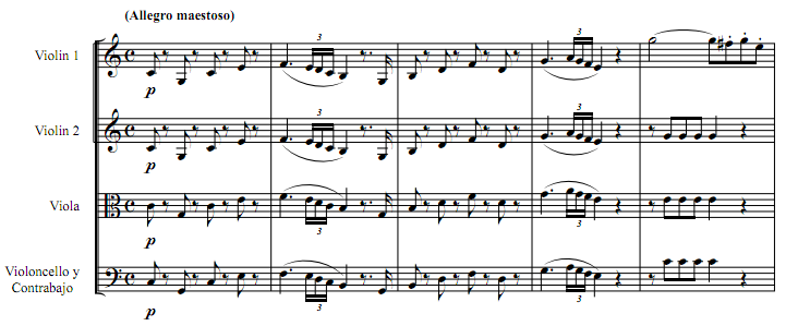 Setting of Mozart's piano concerto 21